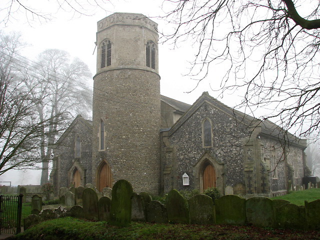 St Mary's church According to the Domesday Book there was a church in Watton before 1086. Originally dedicated to St Giles, the church was rededicated to St Mary in the early 15th century. Because of additions during the 19th century, St Mary's presently is the only Norfolk church that is wider than it is long. The first stage of the round tower is the original Saxon/Norman tower; the octagonal top with four windows was added during the 13th or 14th century. The baptismal font is made from Caen stone and has a cover made of oak. The poor box mounted on the wall is unique: according to tradition it depicts William Forster, a former vicar (from 1632-1660). The church is open on three mornings during the week; a key is readily available when locked.